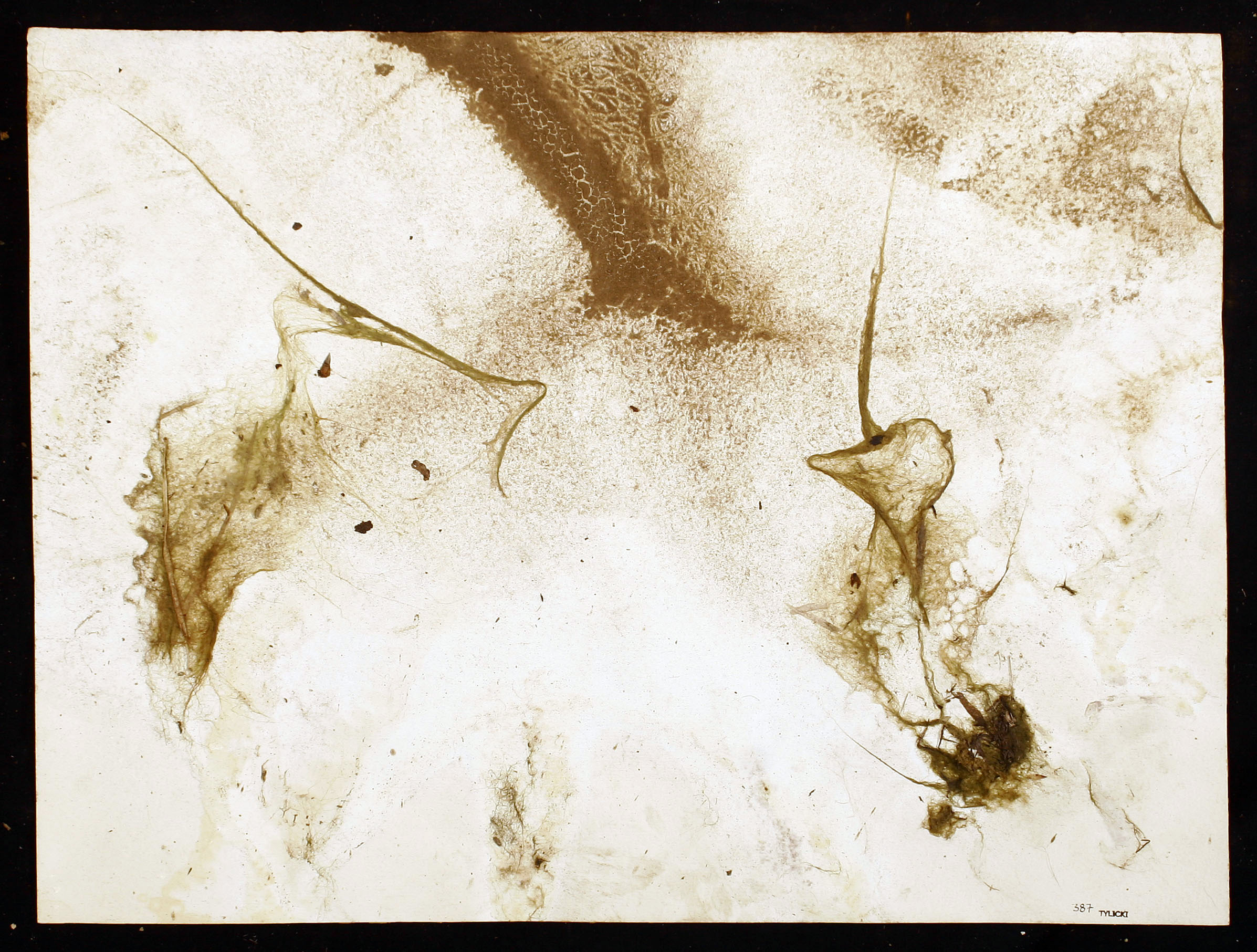 Natural Art Nr. 387 Created by Nature. 9 days in the rushes of the river. Hoje river. S.W. of Lund. Sweden. 17/09 -26/09 1979